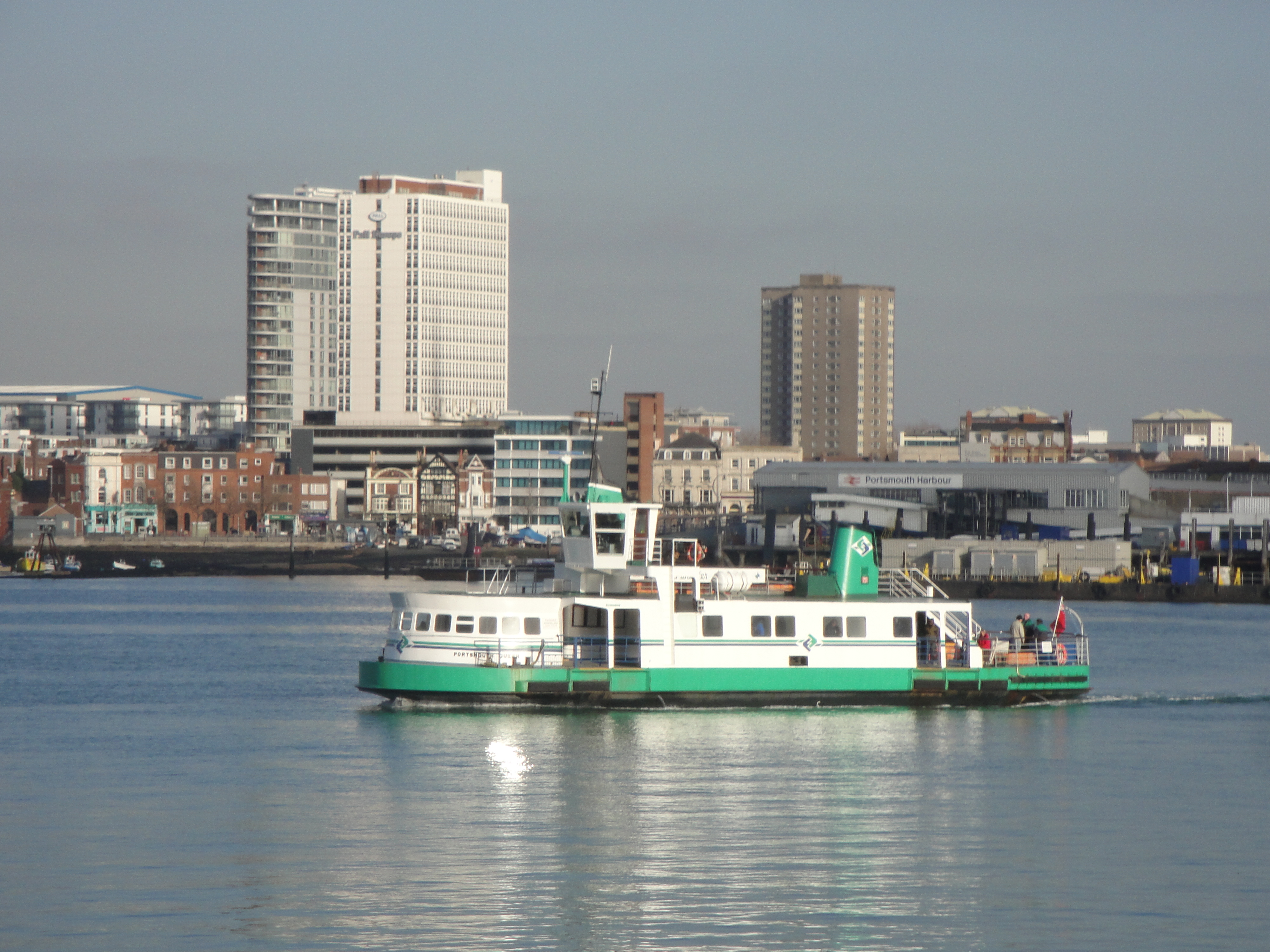 Gosport Ferry Portsmouth Queen, seen on the way towards the ferry terminal at Gosport, Hampshire from Haslar Marina.